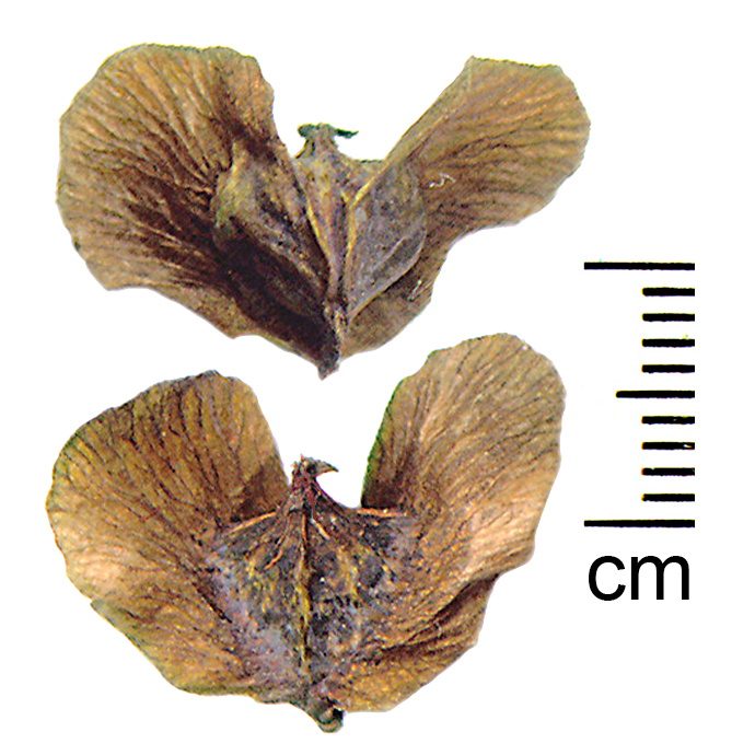 Pterocarya fraxinifolia, fruit